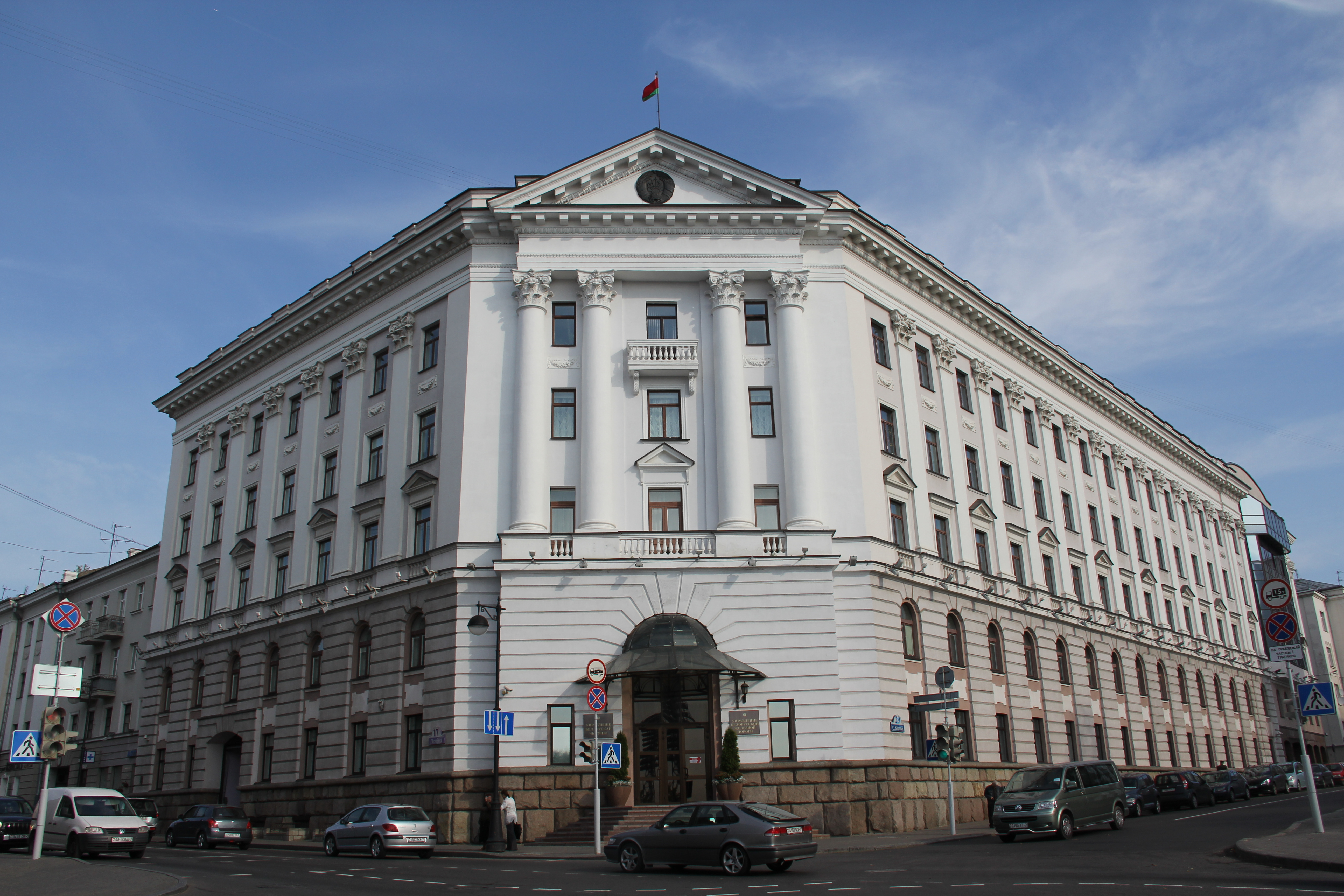 Беларуская (тарашкевіца): Будынак. г. Менск This is a photo of Belarusian heritage monument. Reference number: 713Г000078 ( WLM)